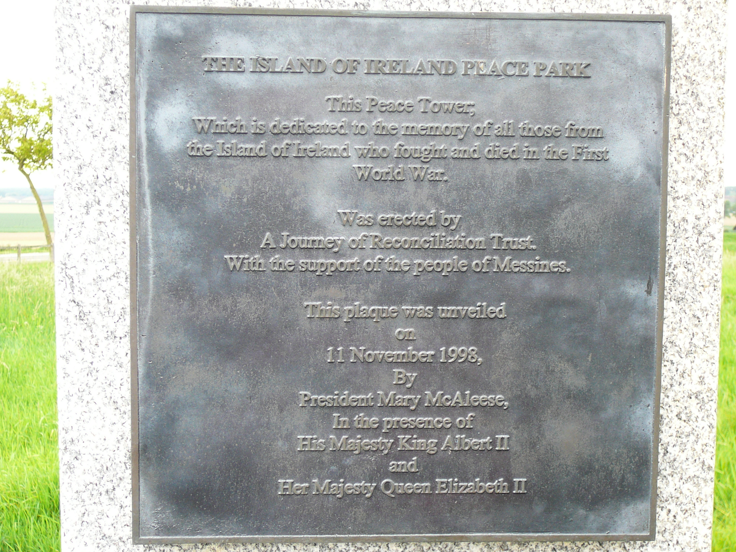 Image of the dedication plaque commemorating the opening of the Island of Ireland Peace Park on 11 November 1998. It stands on a granite pillar inside the entrance gate. It is one of four similar plaques on pillars, the others are in the Irish, Flemish and France languages.